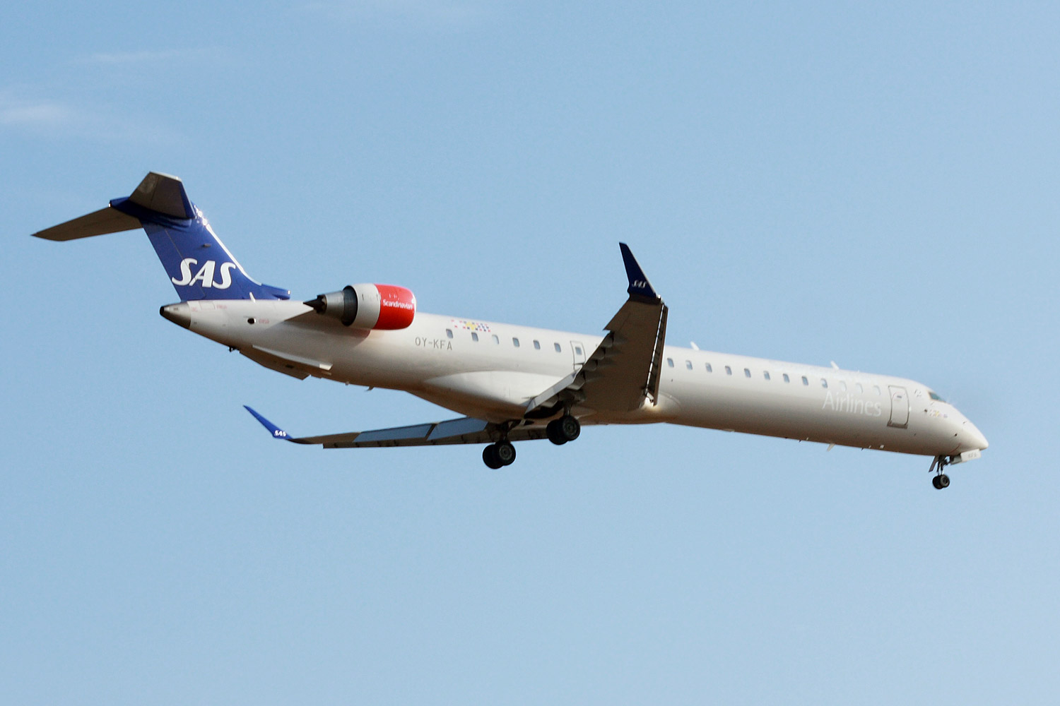 bombardier crj-900 scandinavian airlines